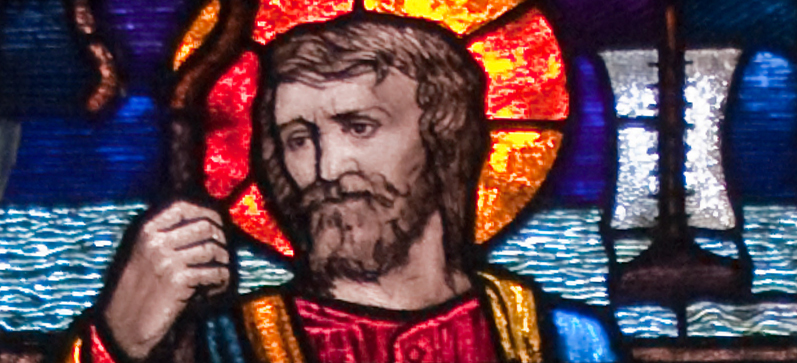 Ferns Cathedral, Ferns, County Wexford, Ireland Detail of stained glass window in the south wall designed by Catherine O'Brien. (Alternative variant, showing the whole window.) Catherine O'Brien (1881–1963) Alternative names Kathleen O'Brien, Kitty O'BrienDescriptionIrish stained-glass artist and mosaic artistmember of An Túr Gloin (Tower of Glass), DublinDate of birth/death 19 June 1881 18 July 1963 Location of birth/death Spancilhill, near Ennis, County Clare, Ireland Sir Patrick Dun's HospitalWork period1904–1963Work location Dublin Authority control : Q17276640 creator QS:P170,Q17276640